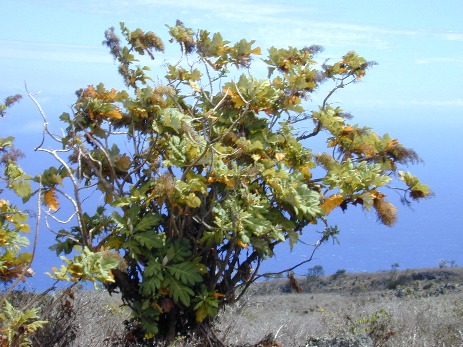 Bocconia frutescens (habit). Location: Maui, Auwahi